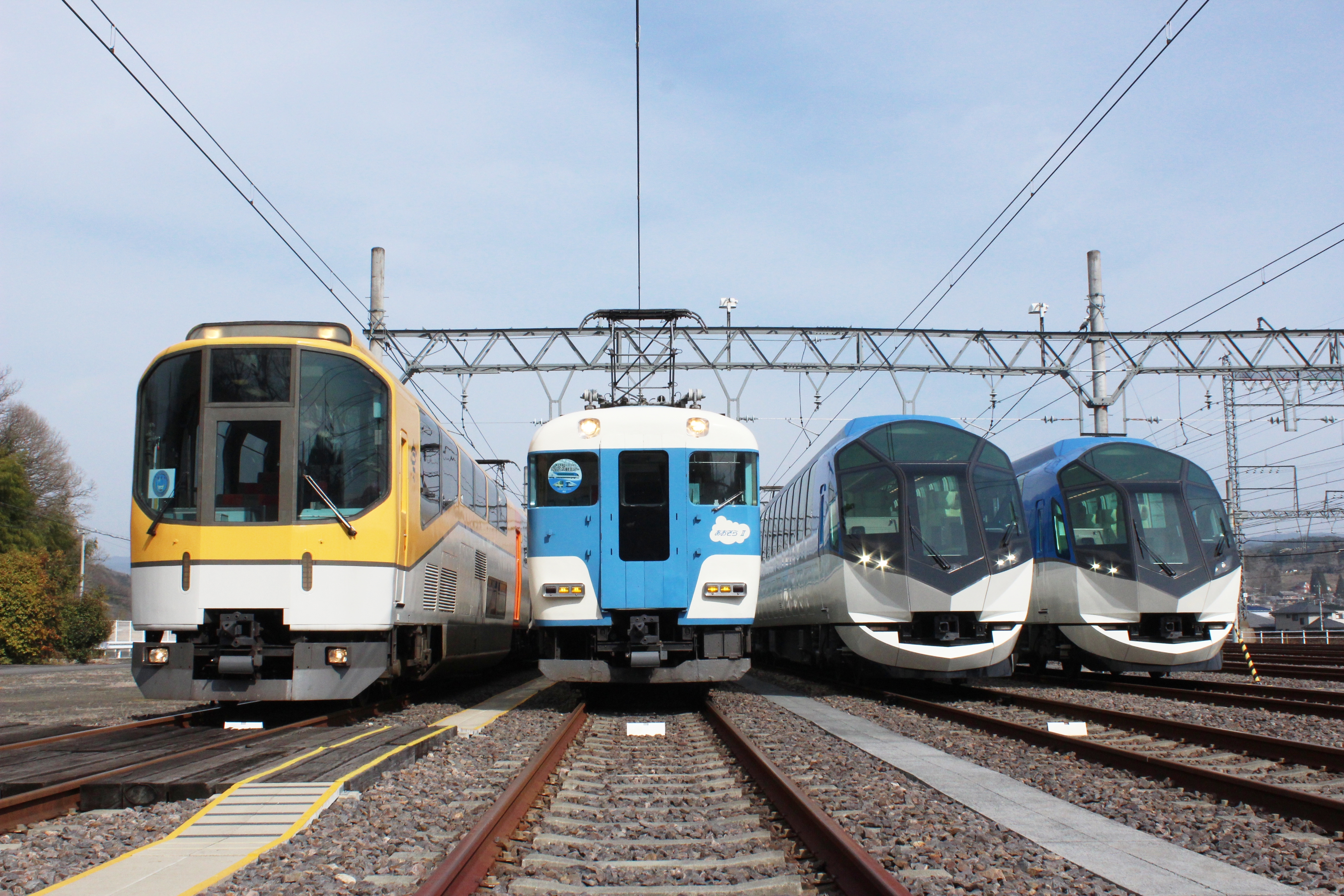 Kintetsu 20000 Series, 15200 Series and 50000 Series EMUs at the Aoyamacho Shed